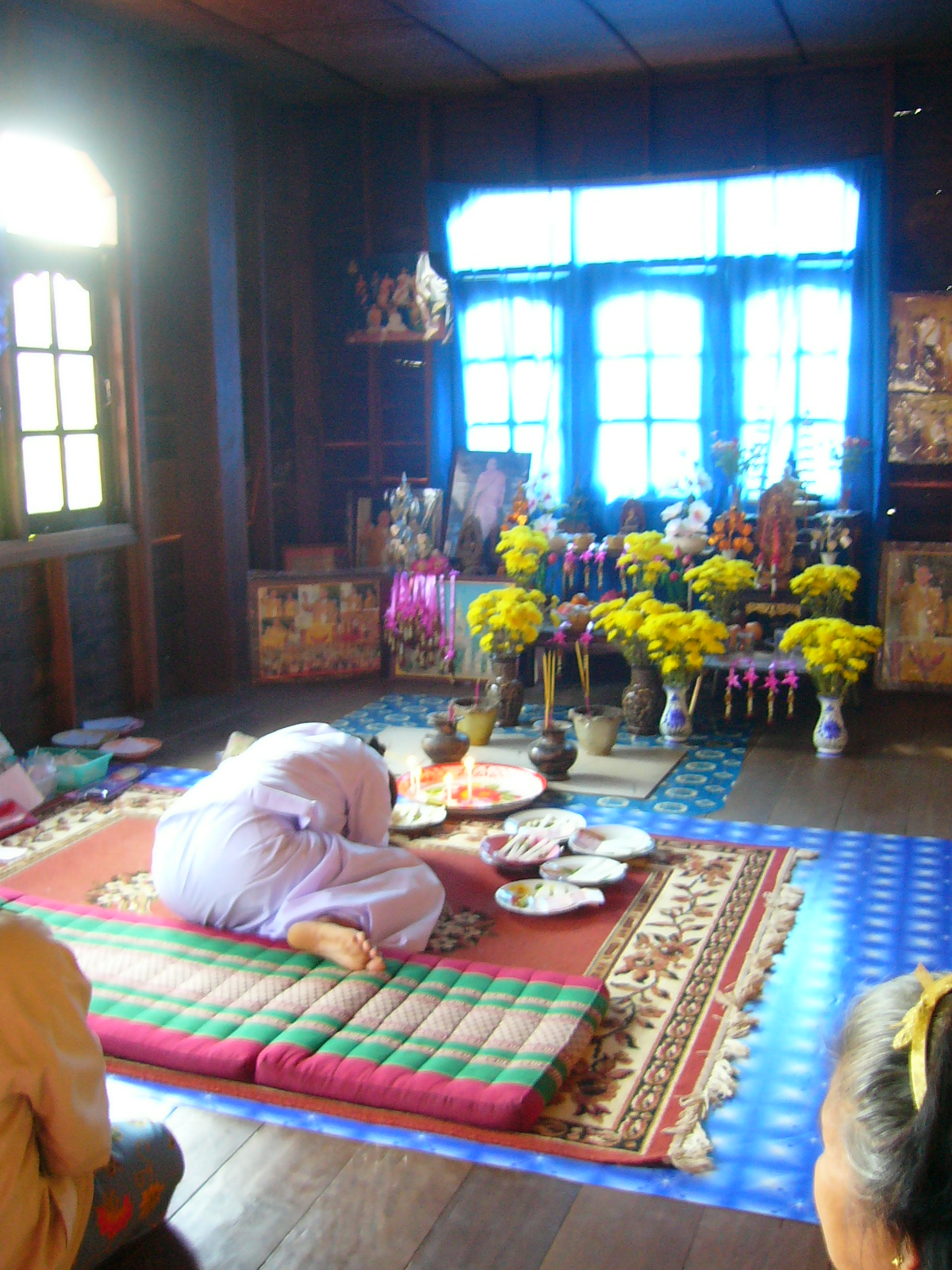 A female Mediumship (Thai Moa Fa Phi Song) in Si Songkhram, Nakhon Phanom province, Thailand.